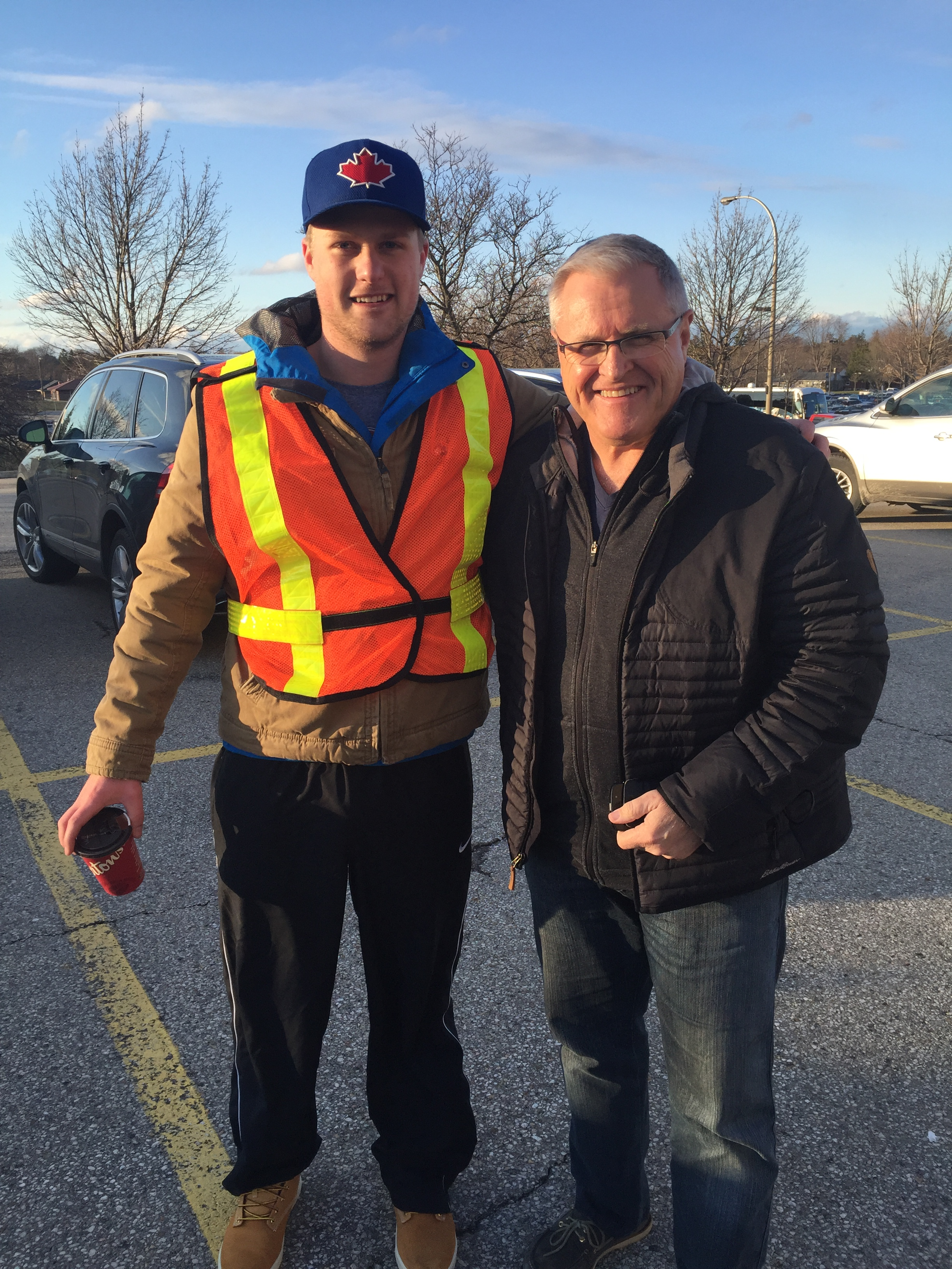 Bob works tirelessly at his job visiting top prospects around the league.